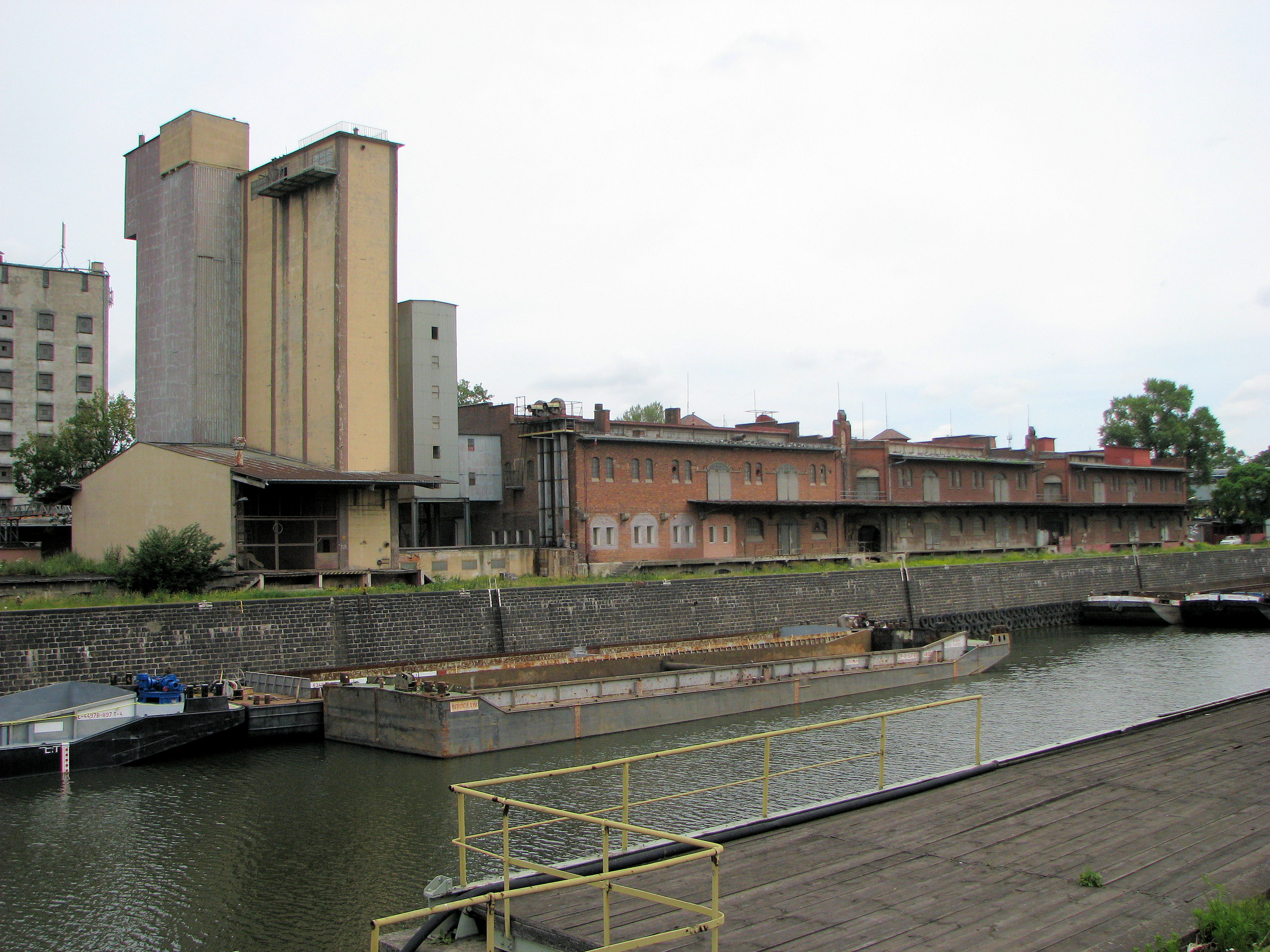 Photo made during the Photo Day 4.0 event in Wrocław